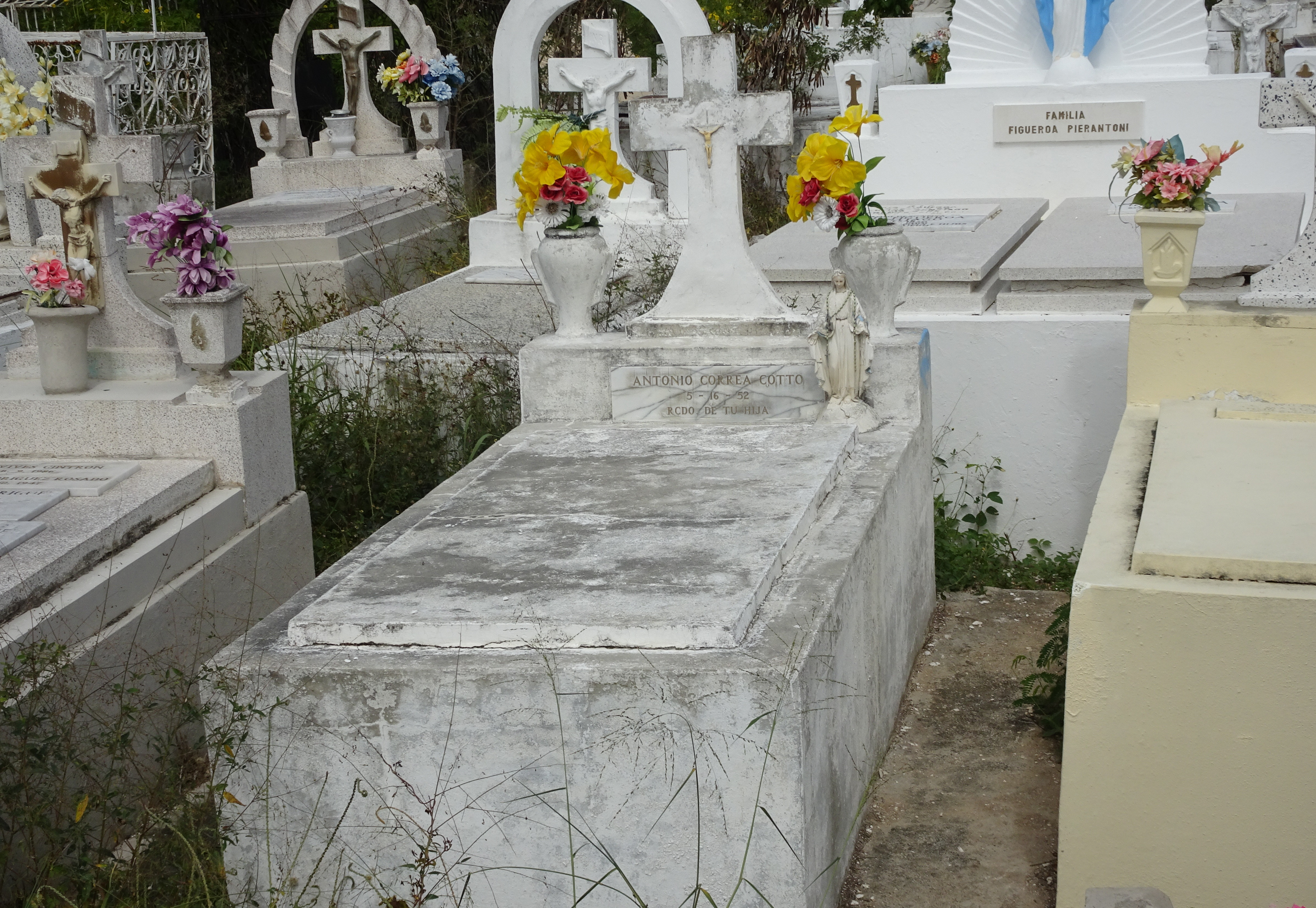 Tumba de Antonio Correa Cotto, Cementerio Civil de Ponce, Bo. Portugués Urbano. Ponce, PR, mirando al norte (DSC02807B)